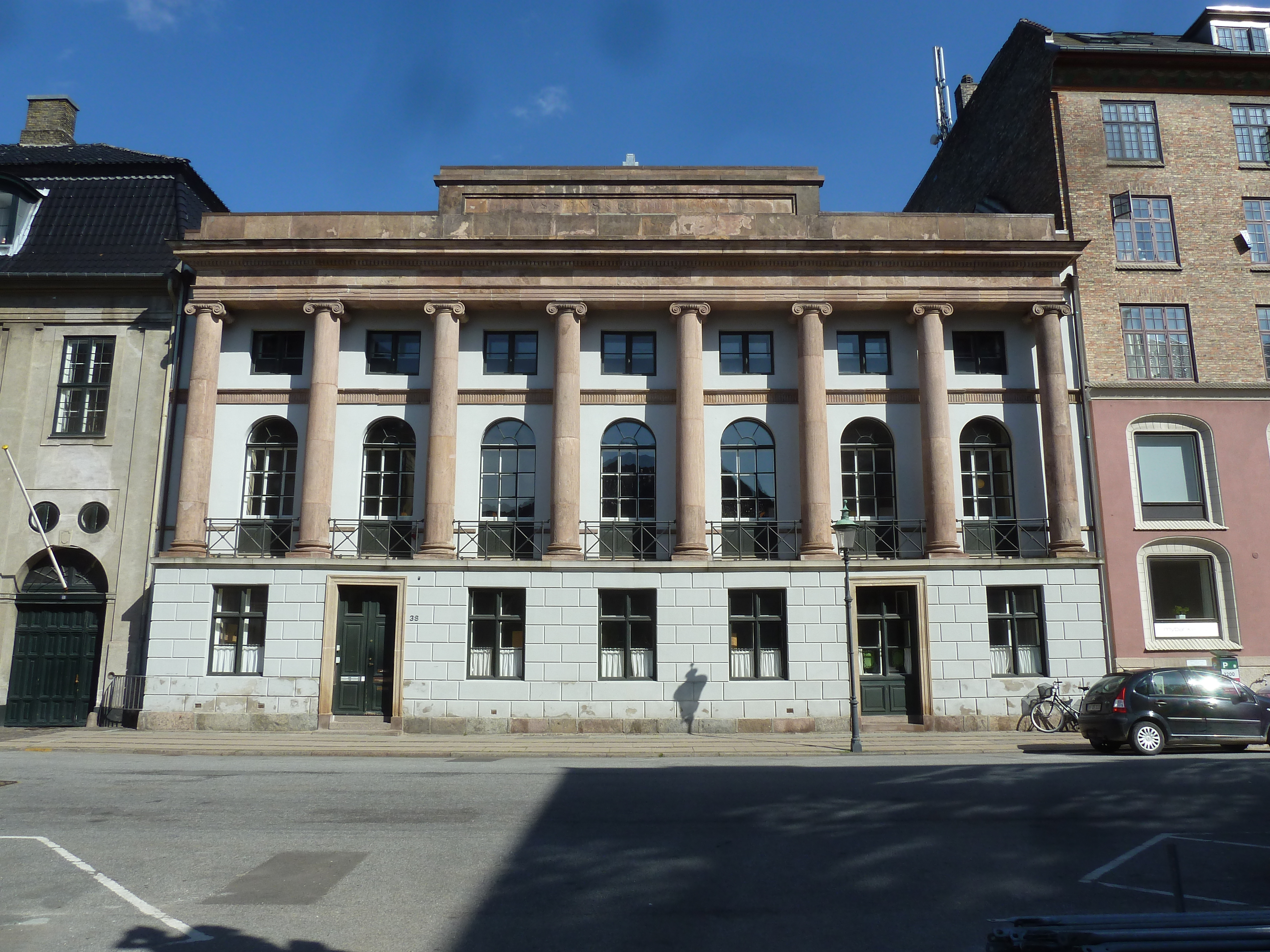 The Building of the former Classen Library at 38 Amaliegade in Copenhagen, Denmark